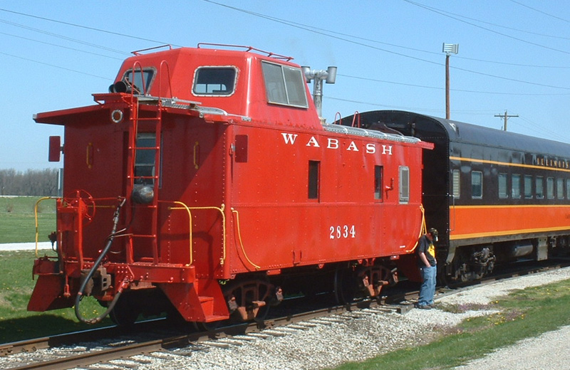 Photo: Brad Sherman